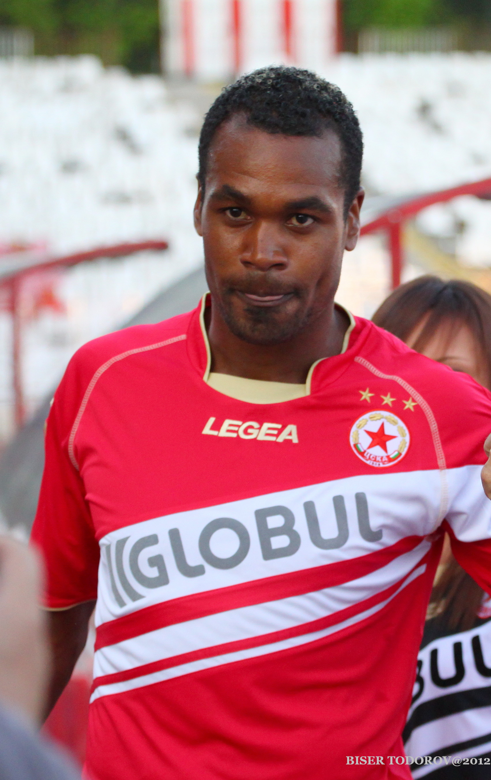 Civard Sprockel - (born 10 May 1983 in Willemstad, Curaçao) is a Dutch Antillean footballer who plays as a centre back for CSKA Sofia